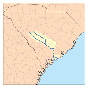 This is a map of the Edisto river watershed. I, Karl Musser, created it based on USGS data.